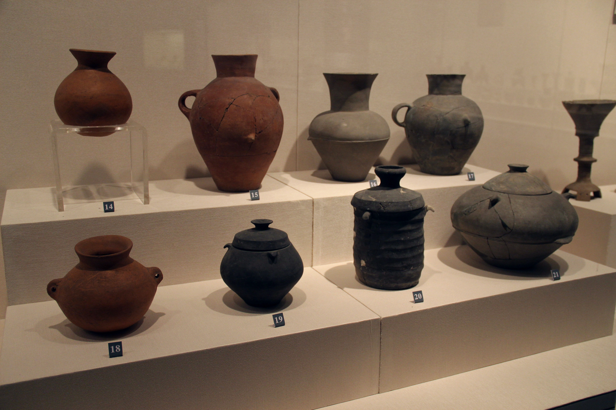 Group of Dawenkou culture pottery. Shandong Provincial Museum, Jinan